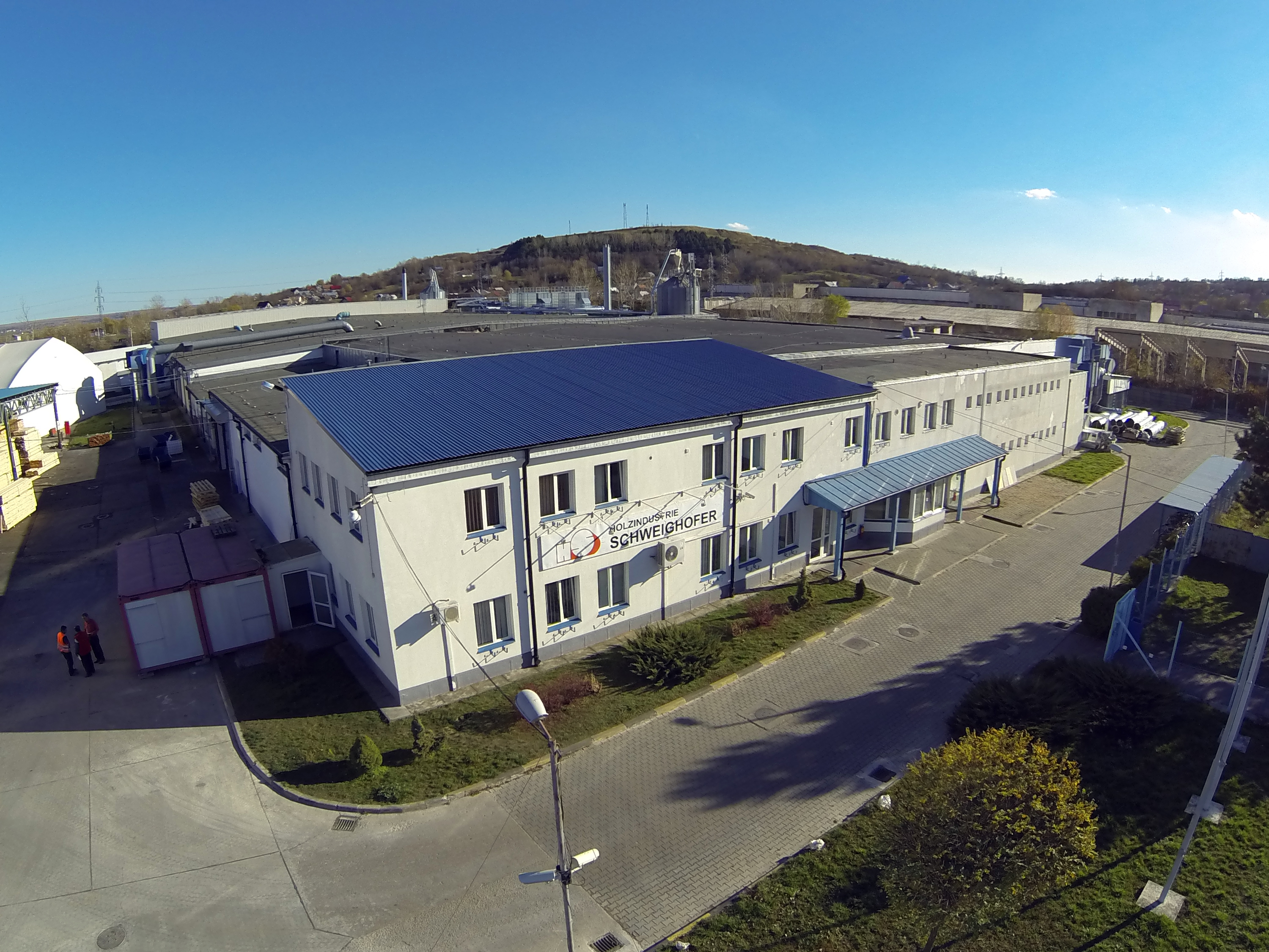 Aerial photo of Schweighofer’s edge glued panels factory in Siret, Romania.